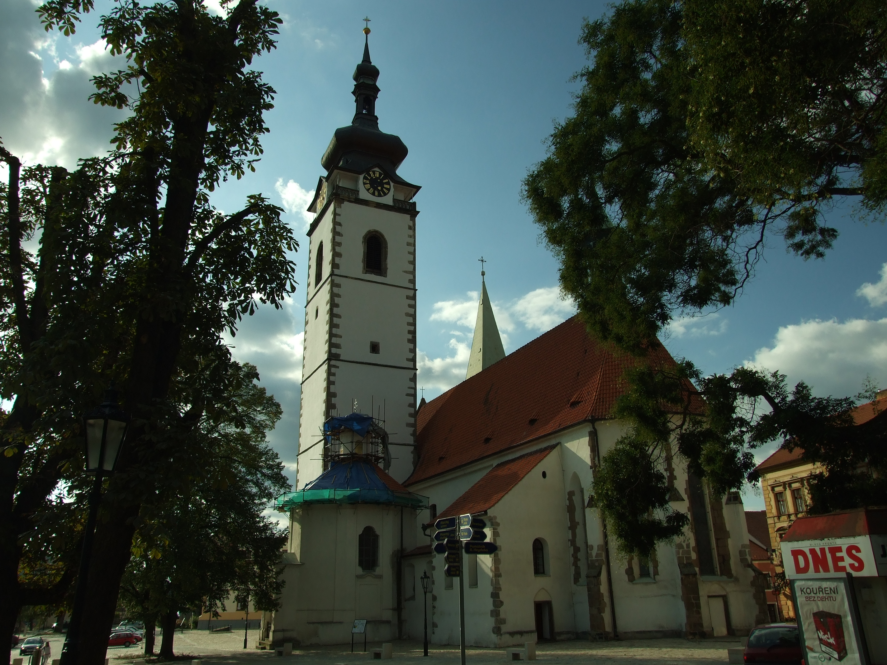 Church of St. Mary in Písek, South Bohemian Region, CZhelp